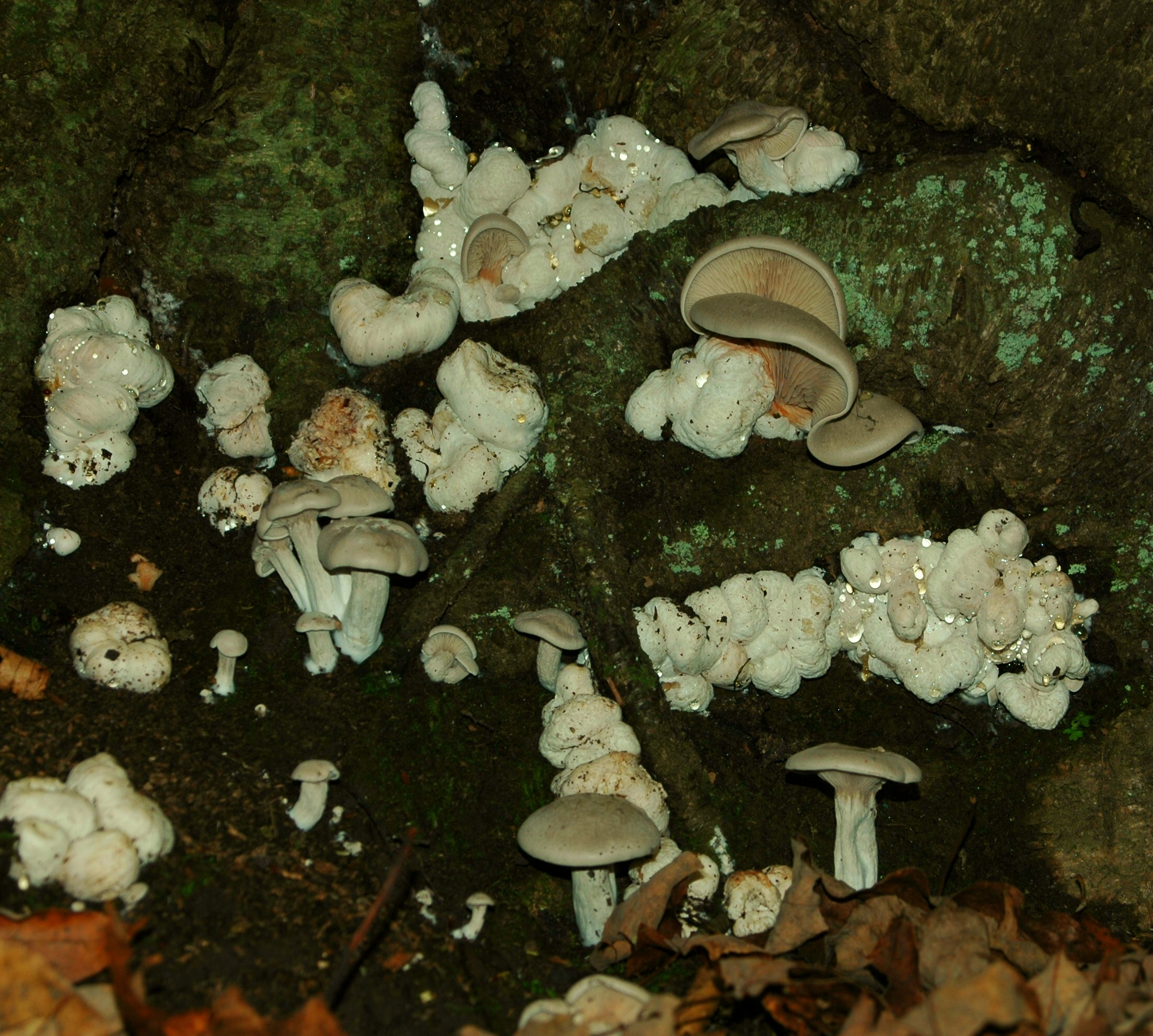 Entoloma abortivum (Berk. and M.A. Curtis) Donk Location: Elk State Forest, Potter Co., Pennsylvania, USA For more information about this, see the observation page at Mushroom Observer.